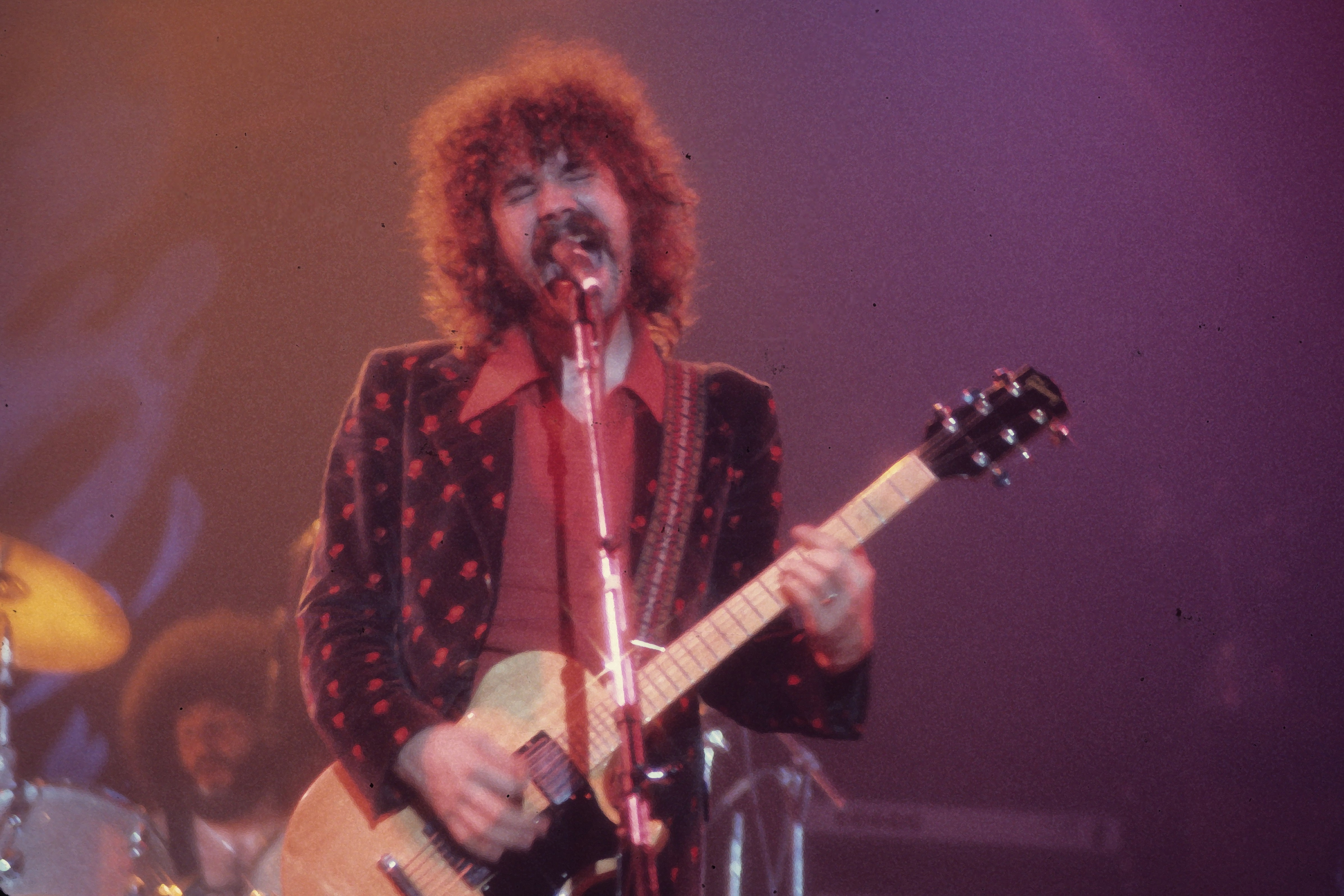 Brad Delp from Boston